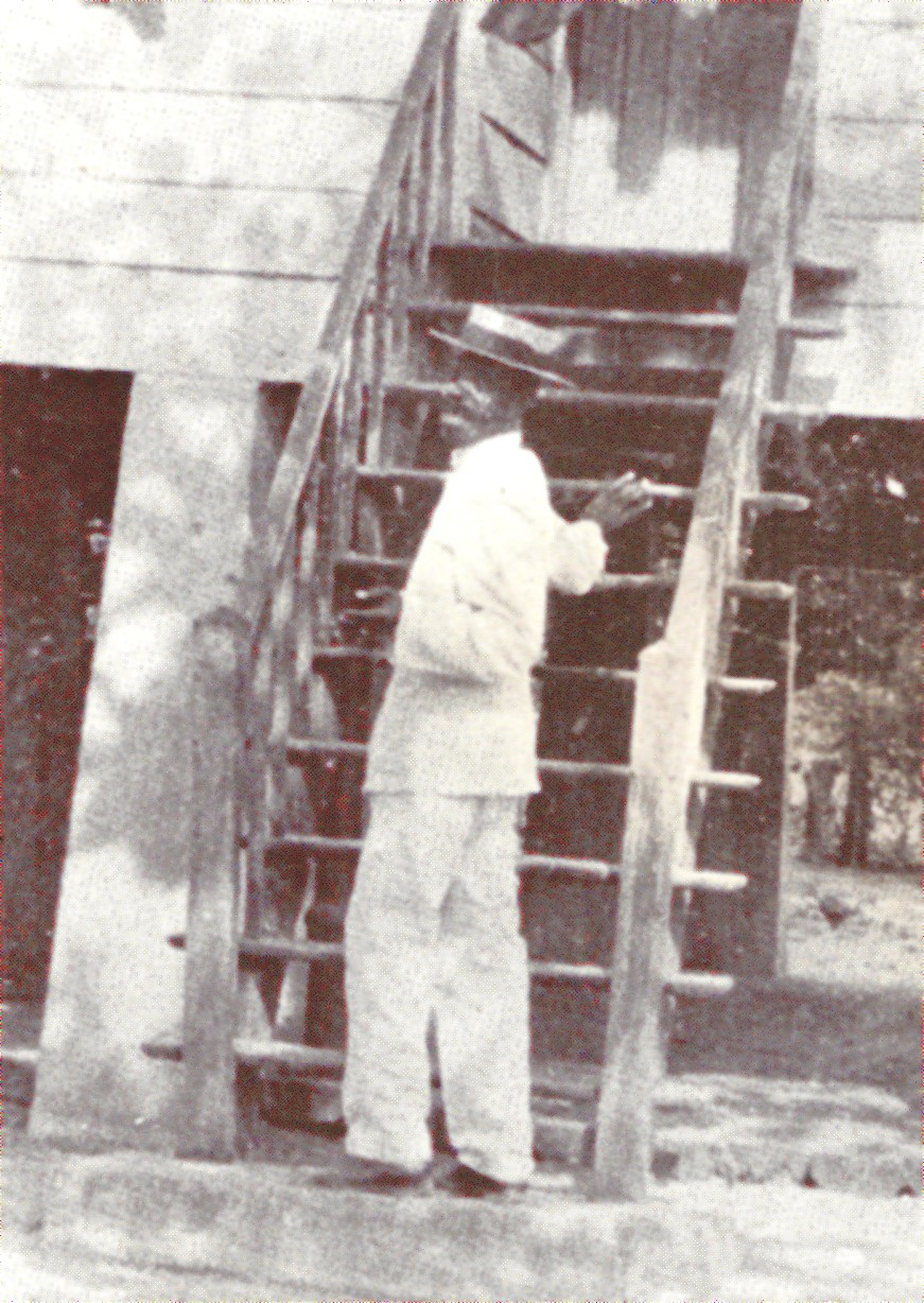 J.G.A. Koenders, teachter from Suriname, writer and promotor of the Creole language Sranan.